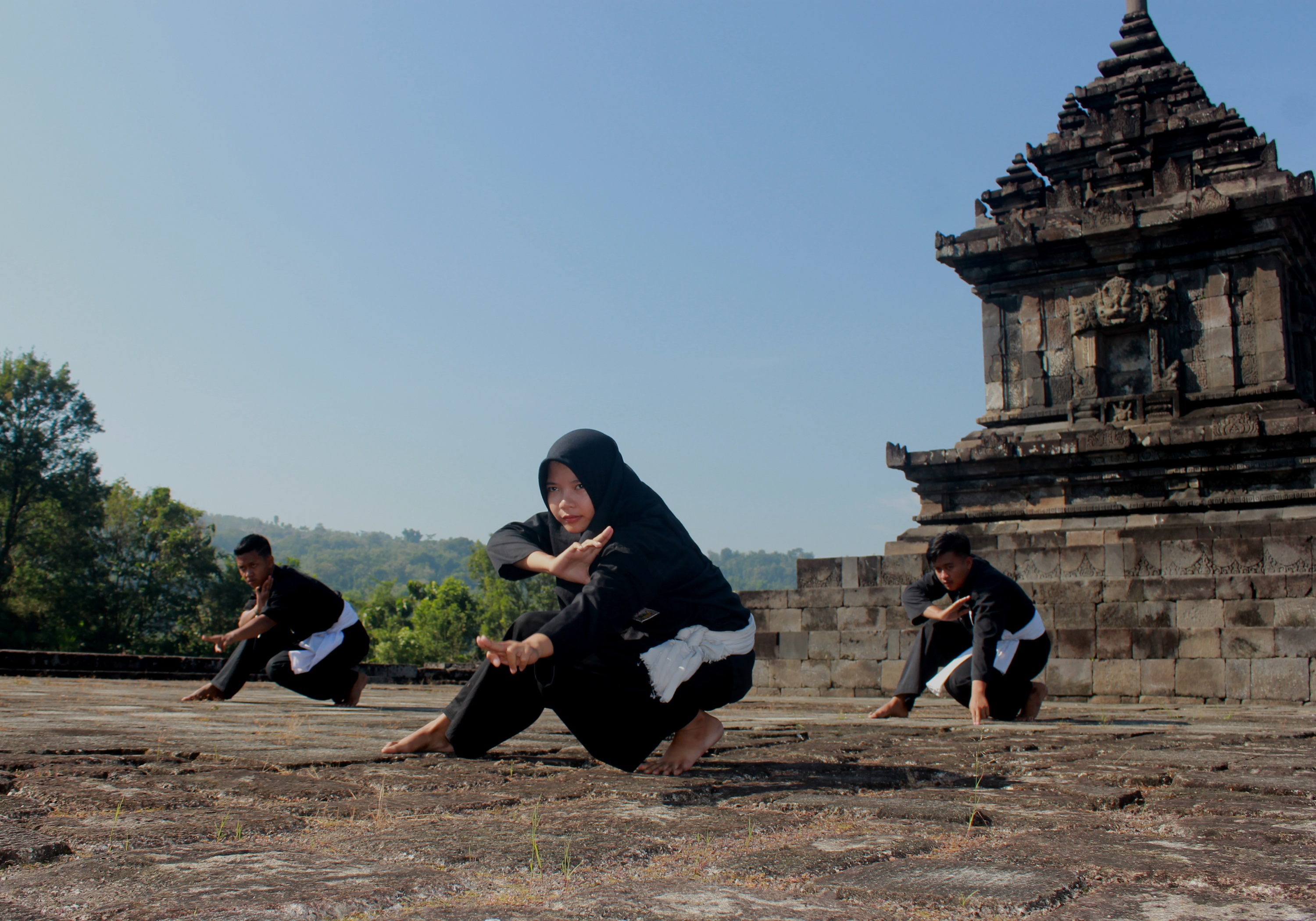 Pencak silat by Persaudaraan Setia Hati Terate (PSHT) at Candi Barong, Sleman, Yogyakarta, Indonesia.